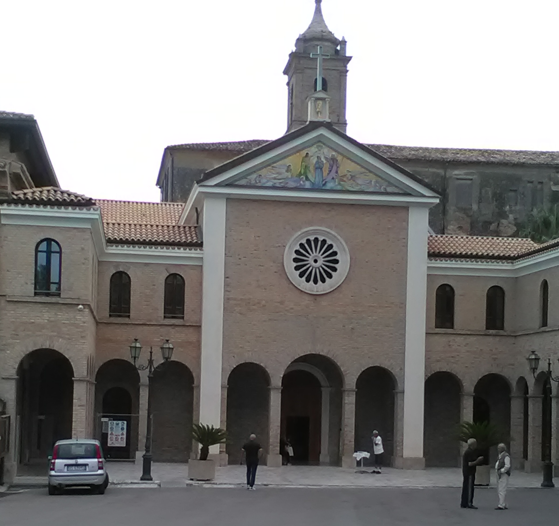 Faòade of Shrine Madonna dello Splendore in Giulianova, Italy